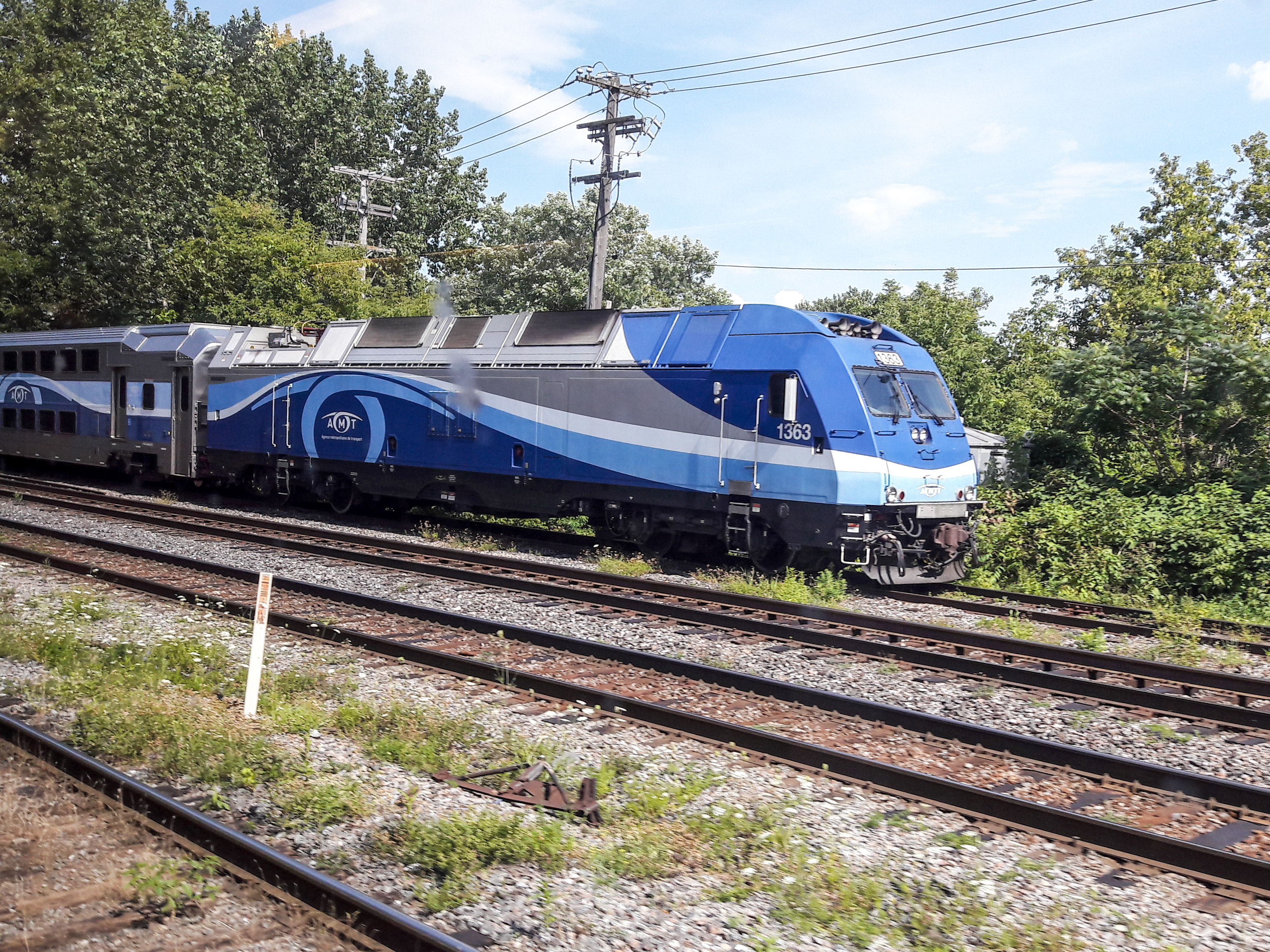 Bombardier ALP-45DP of AMT